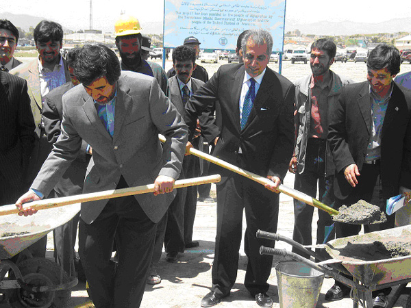 July 22, 2004, Kabul, Afghanistan: Minister of Commerce, Sayed Mustafa Kazemi, and U.S. Special Presidential Envoy and Ambassador Zalmay Khalilzad, lay the first cement for the cornerstone of the Bagrami Industrial Park in Kabul due to be completed in December 2004. The Bagrami Industrial Park is the first of three industrial parks that the United States is funding to spur economic growth in Afghanistan. The other two will be built in Kandahar and Mazar-I-Sharif. The industrial parks will provide tenants reliable electric power, clean land titles, 24-hour site security, full pressure water systems, paved roads, central sewage systems and professional management. “Bagami Industrial Park is a very good step forward in the process of cultivating private investment, as it is private investment that will bring more jobs to Afghans who are eager to work,” Ambassador Khalilzad said. “Afghanistan truly is open for business, and today is yet another sign of Afghanistan’s progress towards a more prosperous future.”